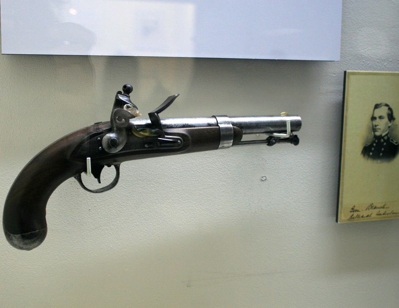 Model 1836 Flintlock Pistol, .54 cal., smoothbore, 8 1/2" round barrel, brass blade front sight, oval rear sight on barrel tang. Overall length 14". One piece walnut stock. Personal arm of Lawrence O’Bryan Branch